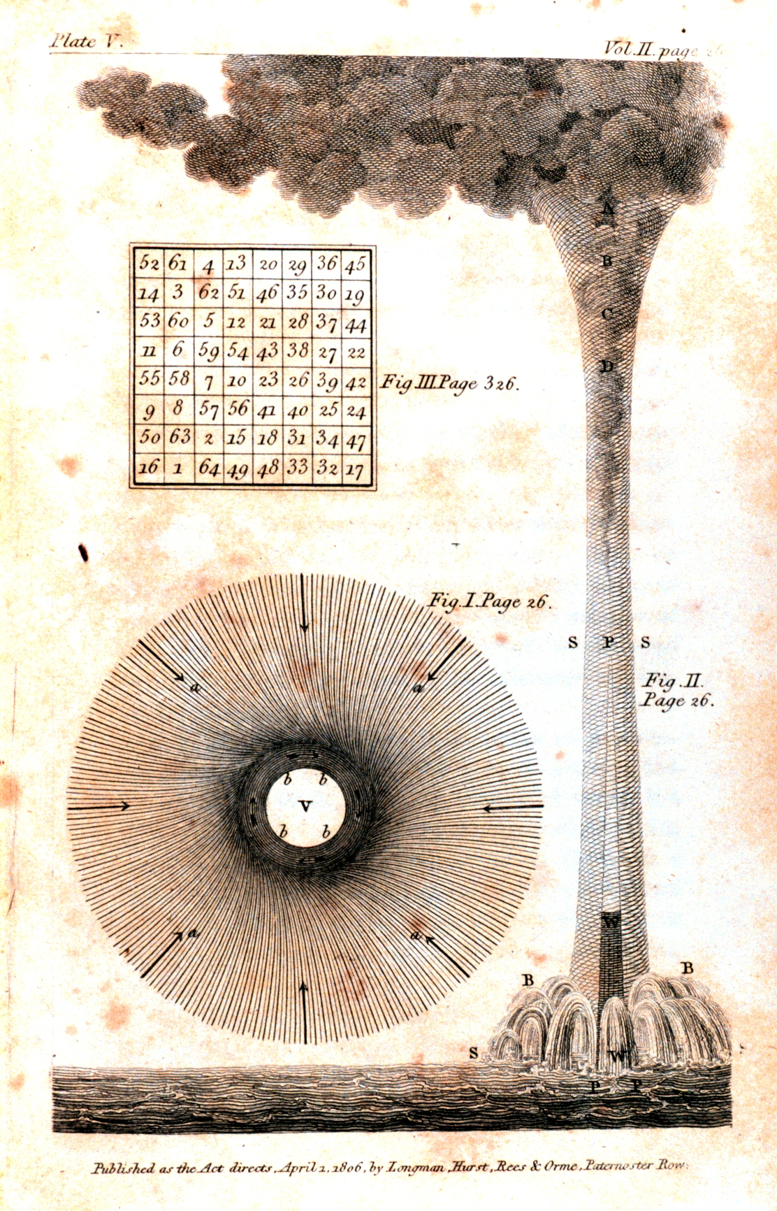 Representation of waterspout accompanying "Water-spouts and Whirlwinds" by Benjamin Franklin. Figure III represents the semimagic square Benjamin Franklin constructed in 1750 having magic constant 260. Keywords: Waterspout, Benjamin Franklin, pen & ink drawing, historic drawing